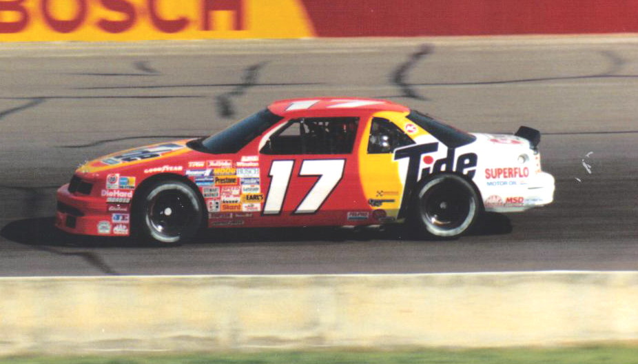 The Rick Hendrick owned Tide Chevy of Darrell Waltrip finished 4th in the 1989 Checker 500.